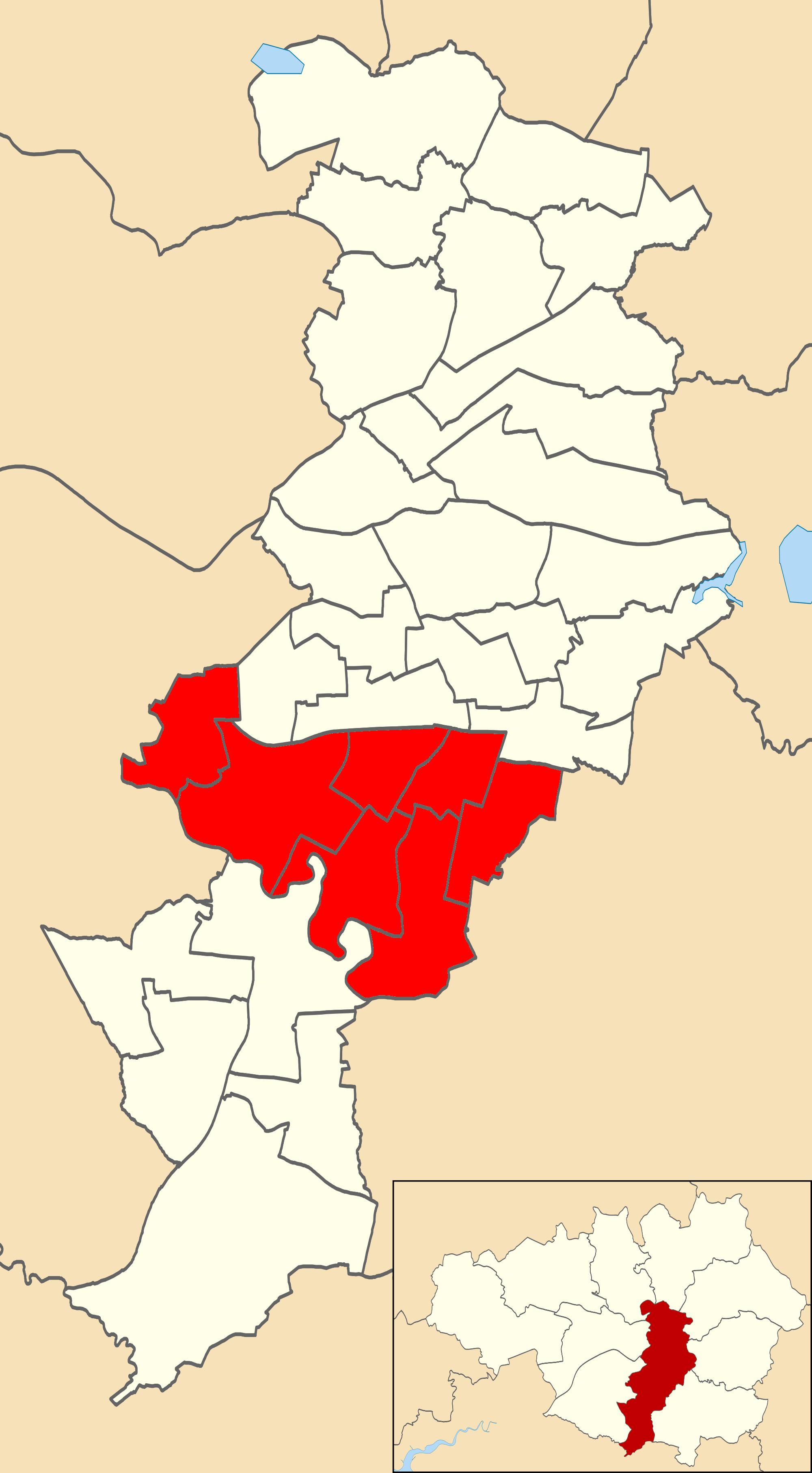 Map showing location of Manchester Withington (UK Parliament constituency) within Manchester City Council.